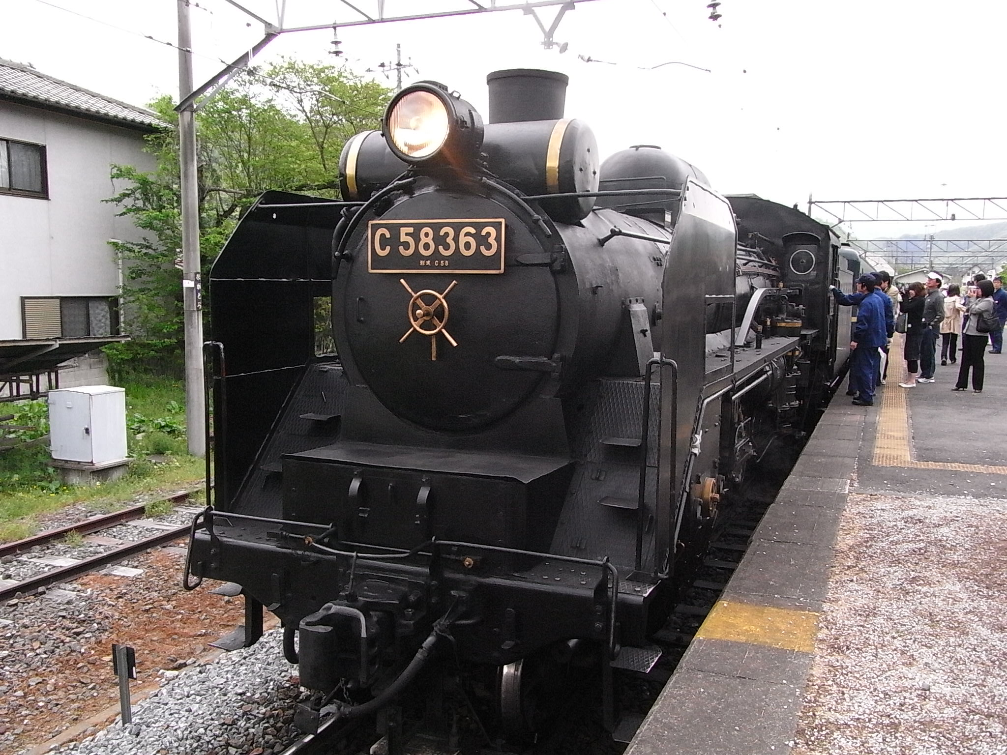 Chichibu Railway Class C58 steam locomotive C58 363 at Nagatoro Station in Saitama Prefecture, Japan